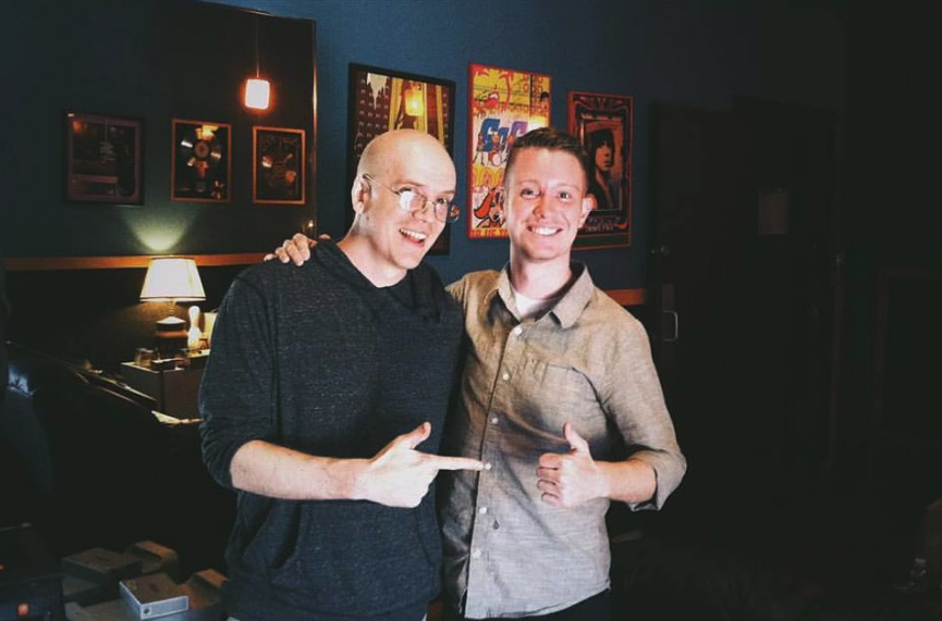 Devin with orchestrator Randy Slaugh at Swing House Studios, Los Angeles, CA